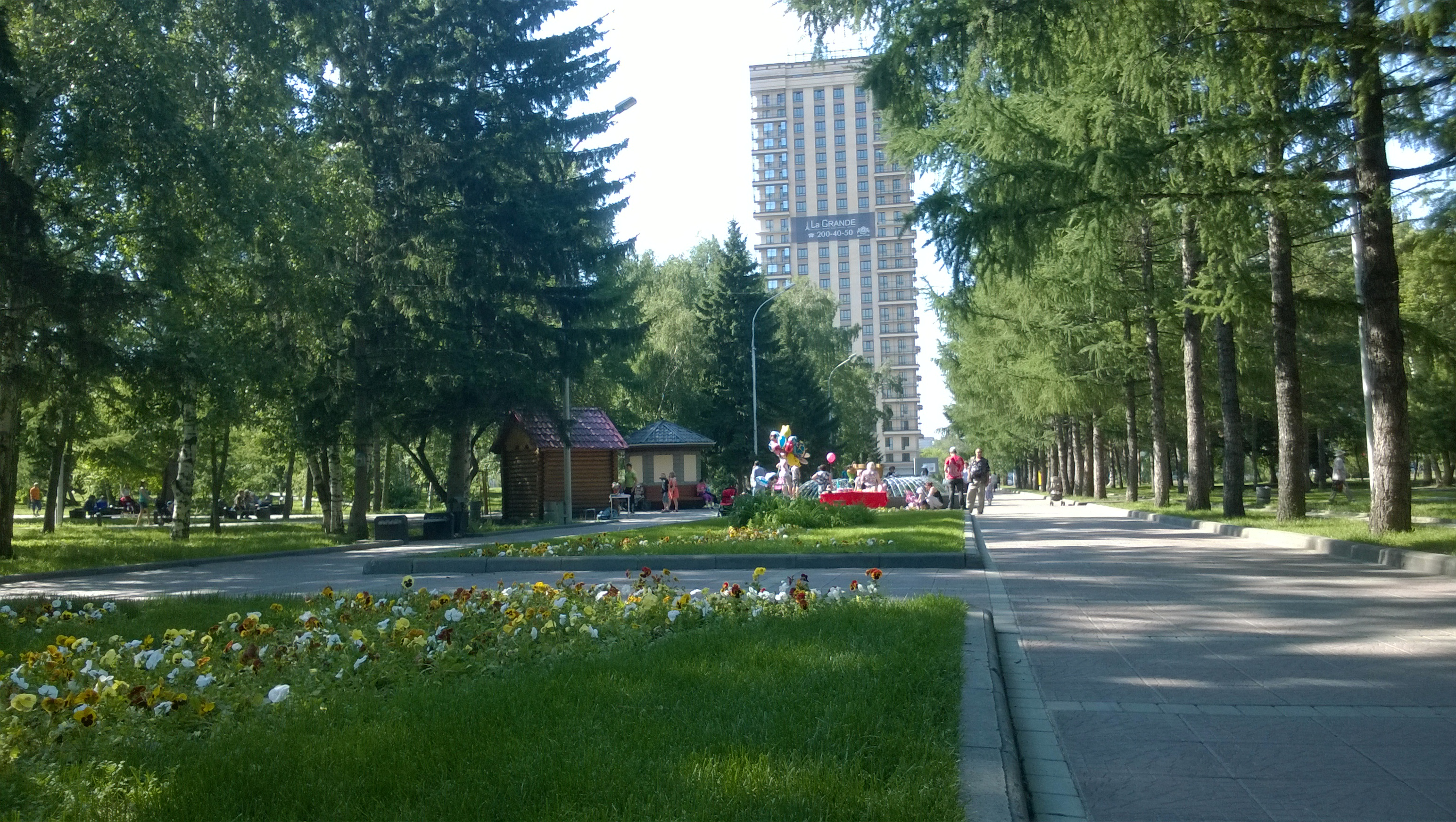 Garden square in Novosibirsk.